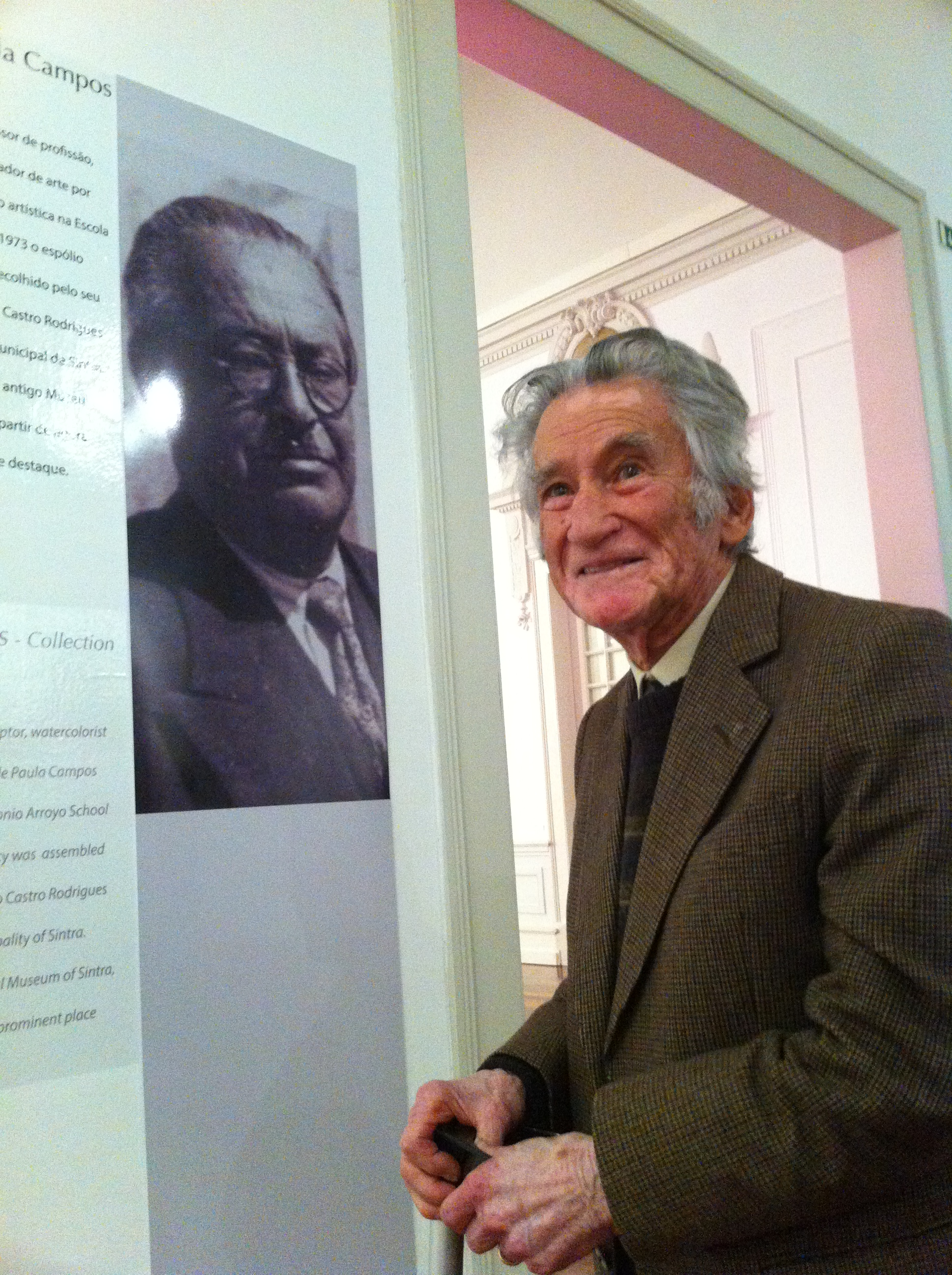 Architect Francisco Castro Rodrigues